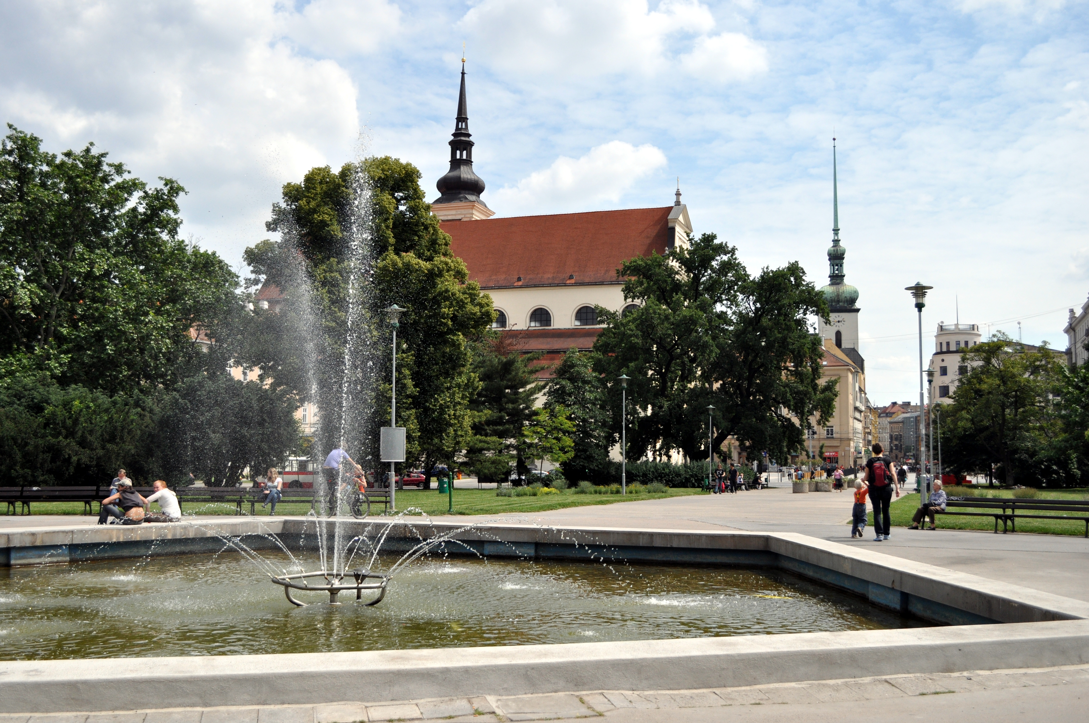 Park on Moravian square